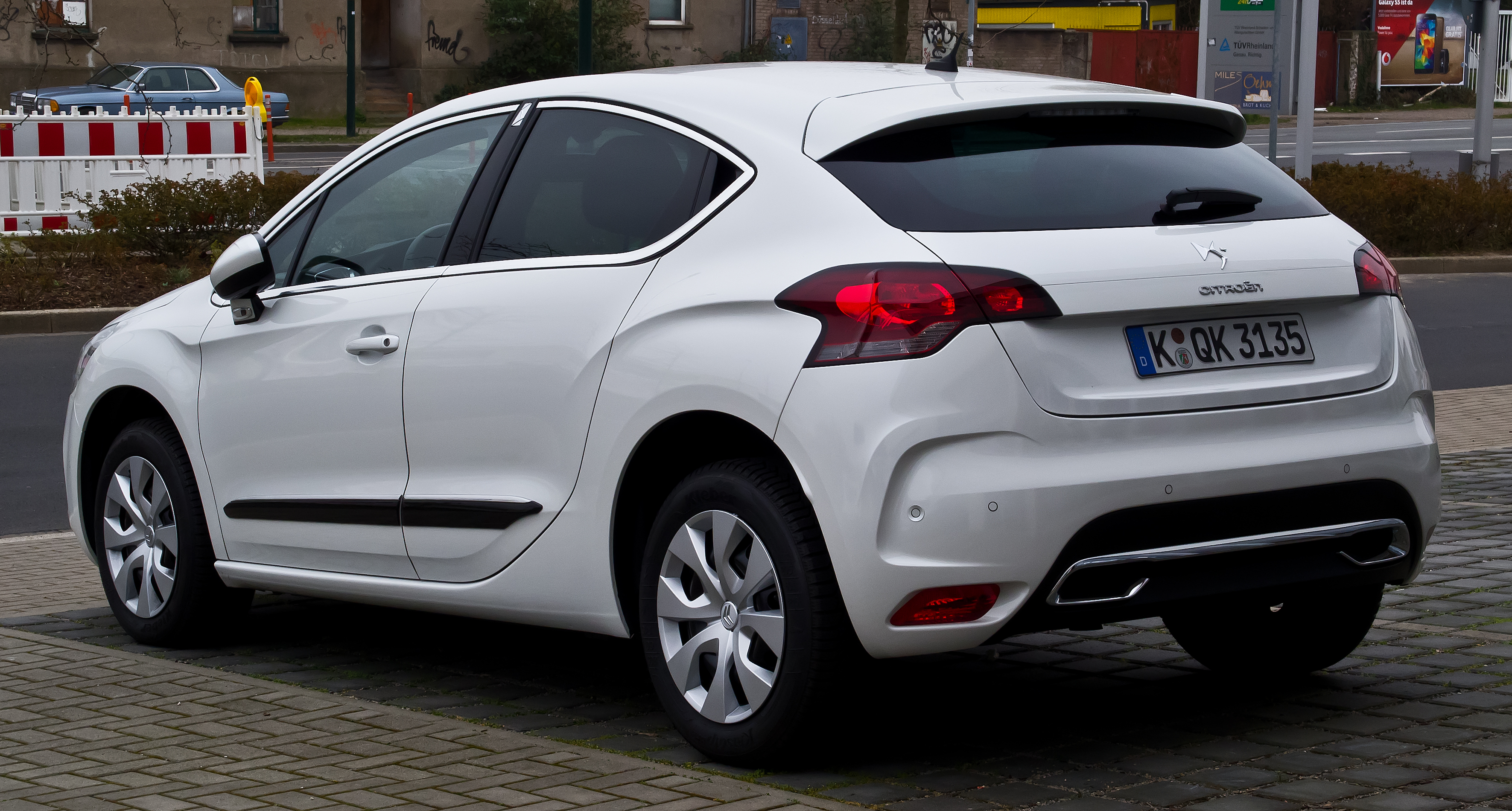 Citroën DS4 SoChic